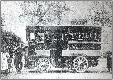 La Cuadra Omnibus, circa 1900